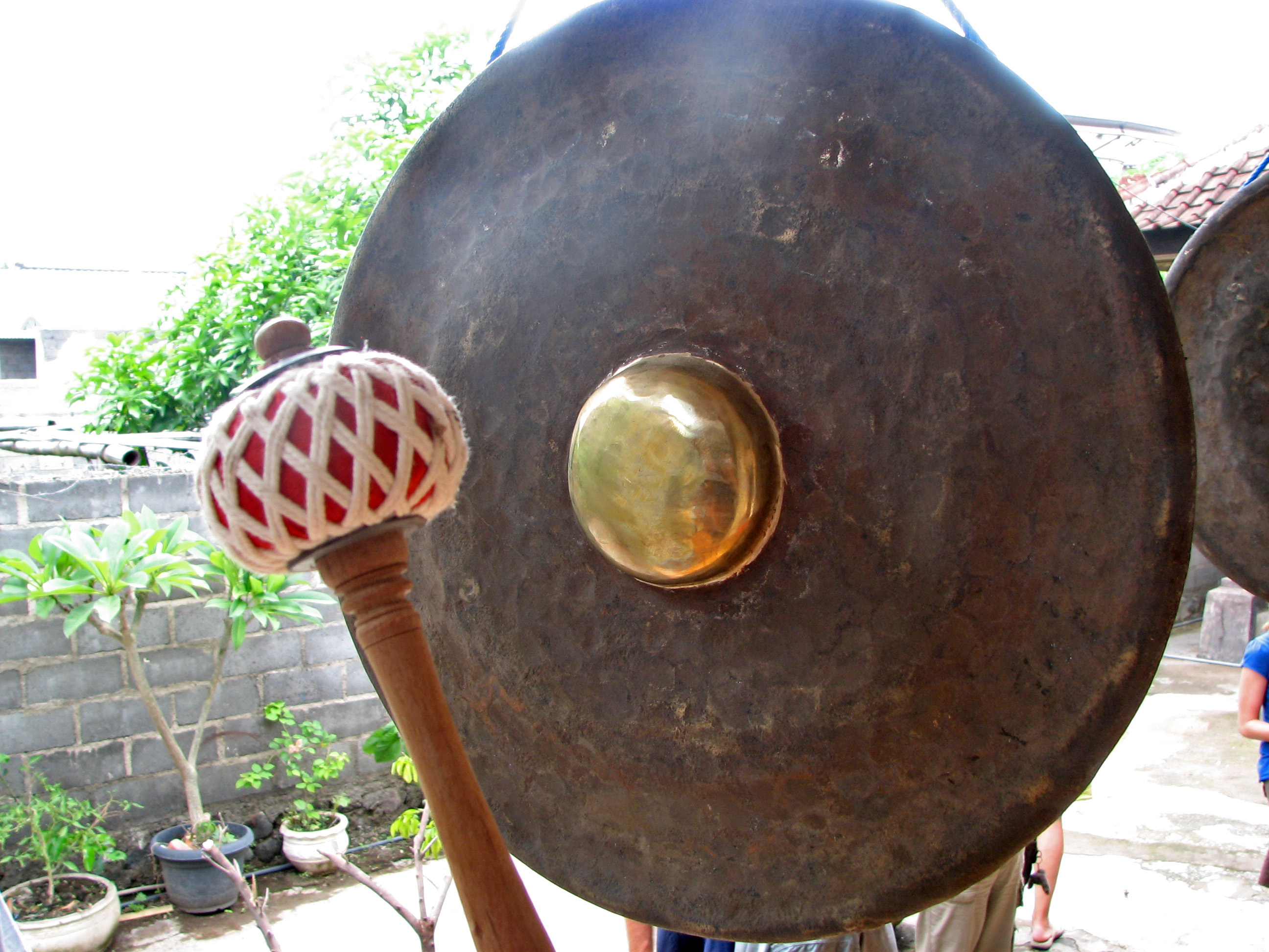 Gong (Bali island, Indonesia)